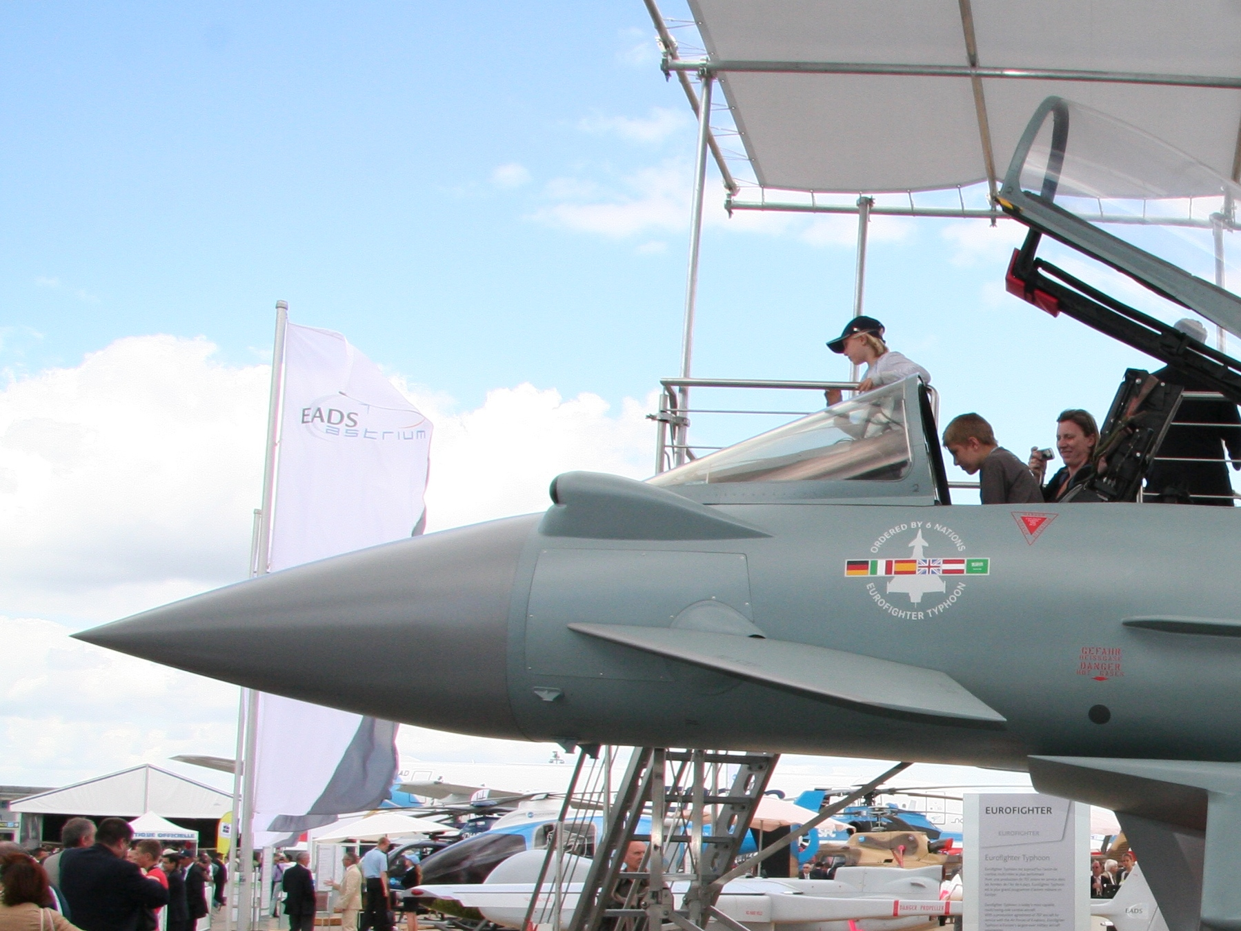 Eurofighter Typhoon with MBDA Meteor missiles - Paris Air Show 2009